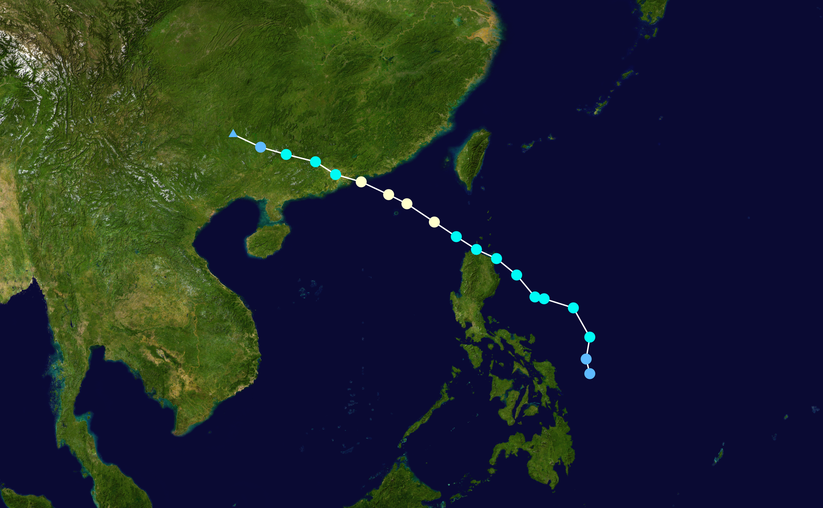 Track map of Severe Tropical Storm Nida of the 2016 Pacific typhoon season. The points show the location of the storm at 6-hour intervals. The colour represents the storm's maximum sustained wind speeds as classified in the Saffir–Simpson scale (see below), and the shape of the data points represent the nature of the storm, according to the legend below. Saffir–Simpson scale Tropical depression≤38 mph≤62 km/h Category 3111–129 mph178–208 km/h Tropical storm39–73 mph63–118 km/h Category 4130–156 mph209–251 km/h Category 174–95 mph119–153 km/h Category 5≥157 mph≥252 km/h Category 296–110 mph154–177 km/h Unknown Storm type Tropical cyclone Subtropical cyclone Extratropical cyclone / Remnant low / Tropical disturbance / Monsoon depression